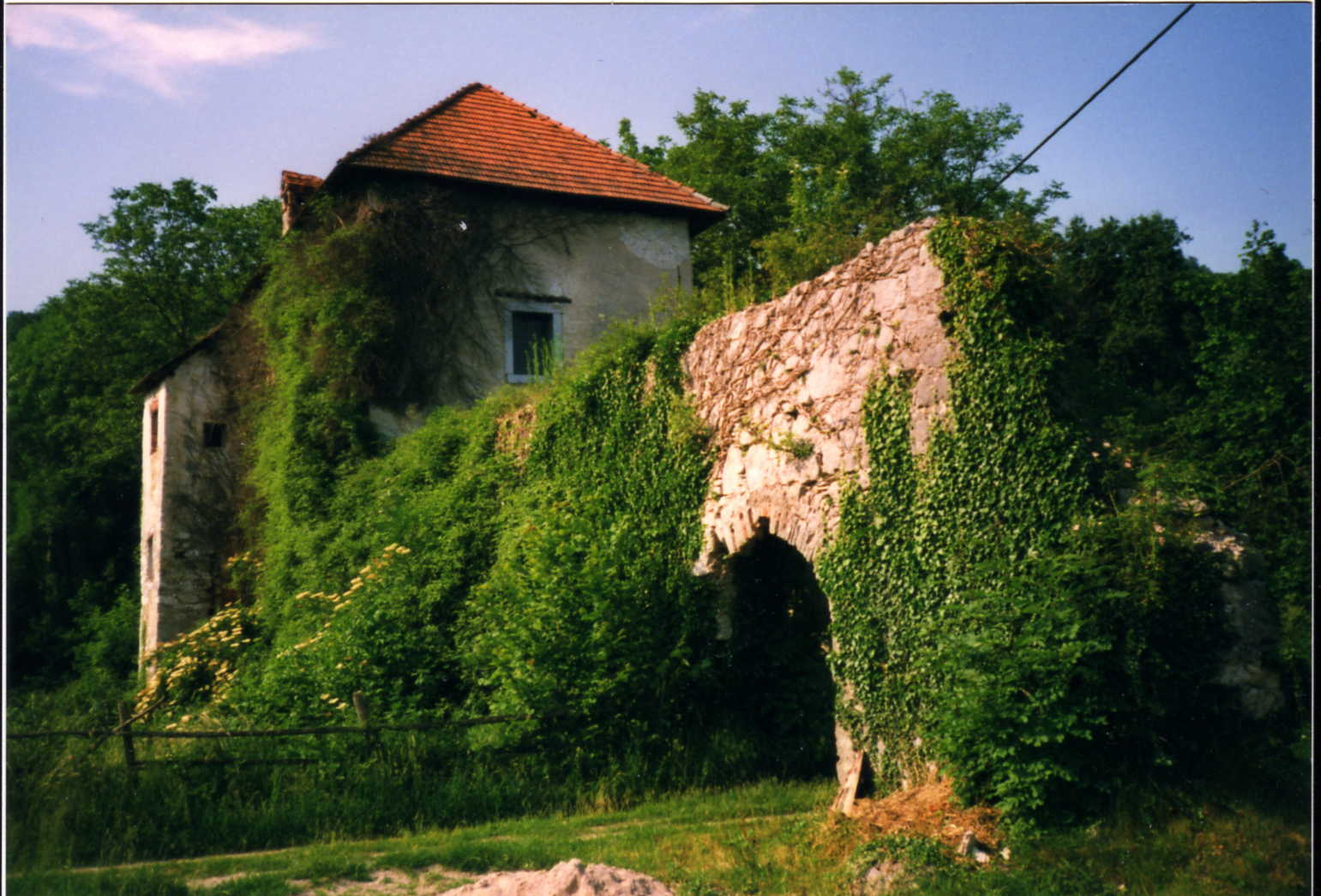 Ruins of castle Pobrežje (former Freyenthurn) in Slovenia